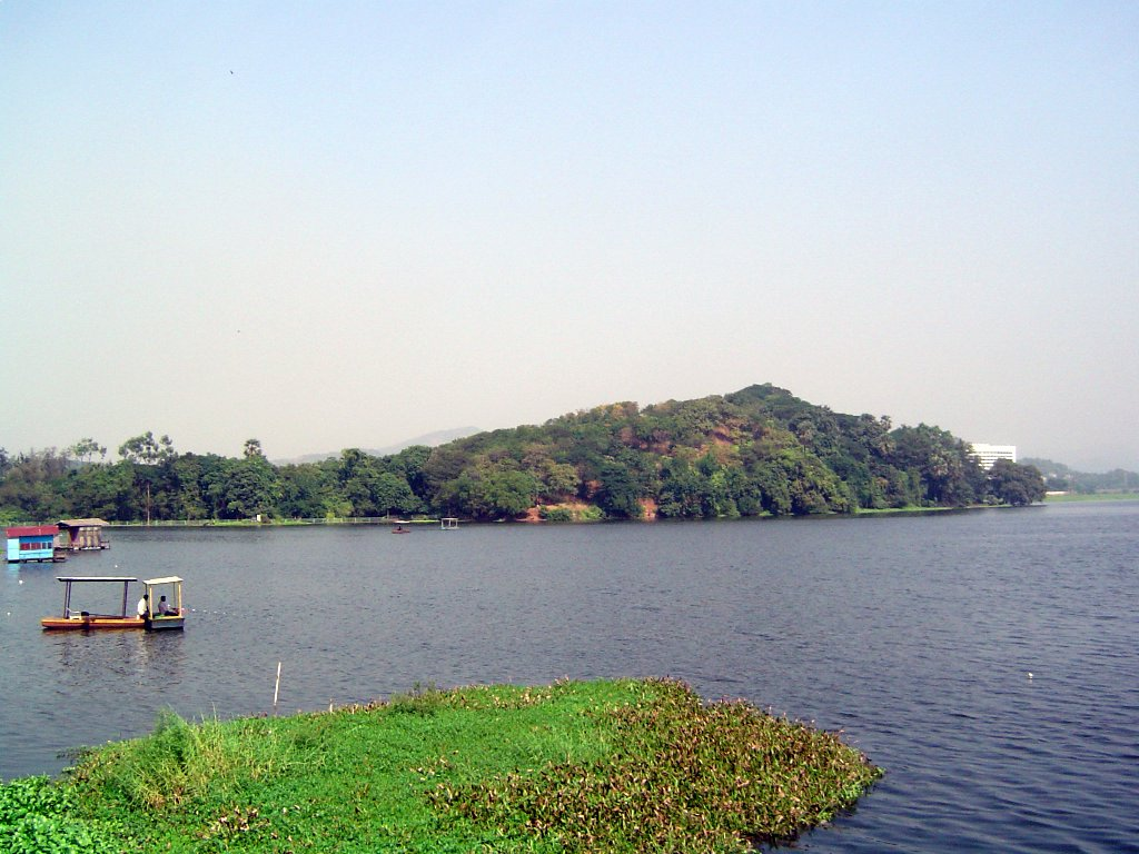 The Powai lake lies on the edge of the Sanjay Gandhi National Park. Somewhat polluted, it supplies water for industrial use. It is one of the sources of the Mithi river. The Renaissance Hotel is partly visible in the background.